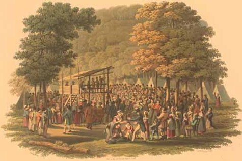 Engraving of a Methodist camp meeting